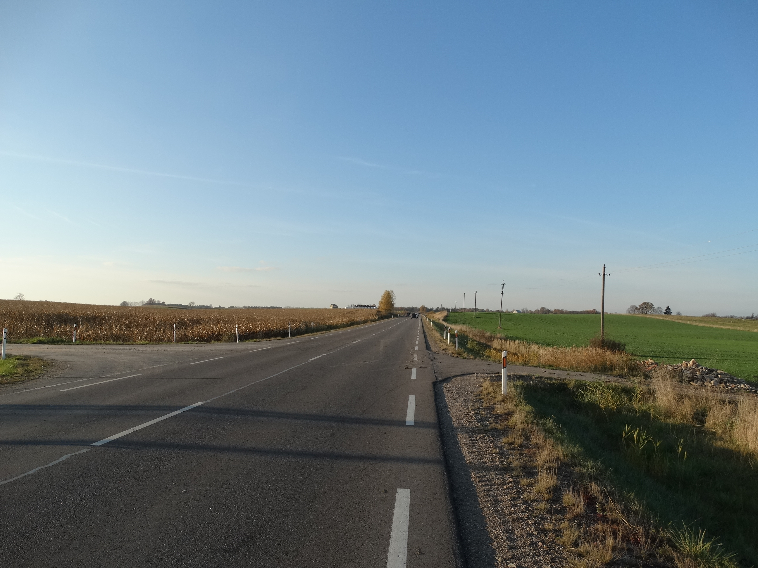 Road 182 by Bukta, Marijampolė municipality, Lithuania